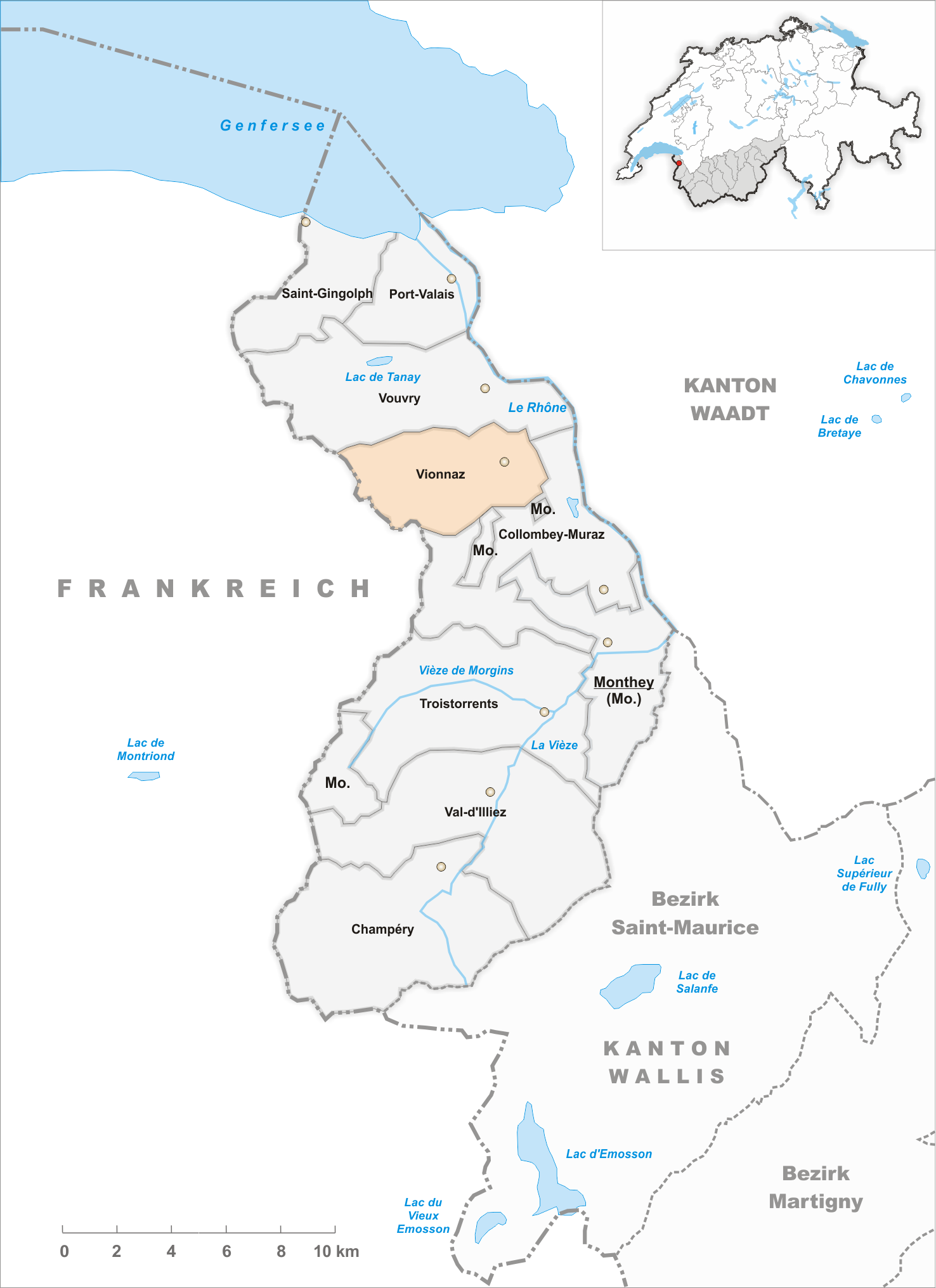 Municipality Vionnaz